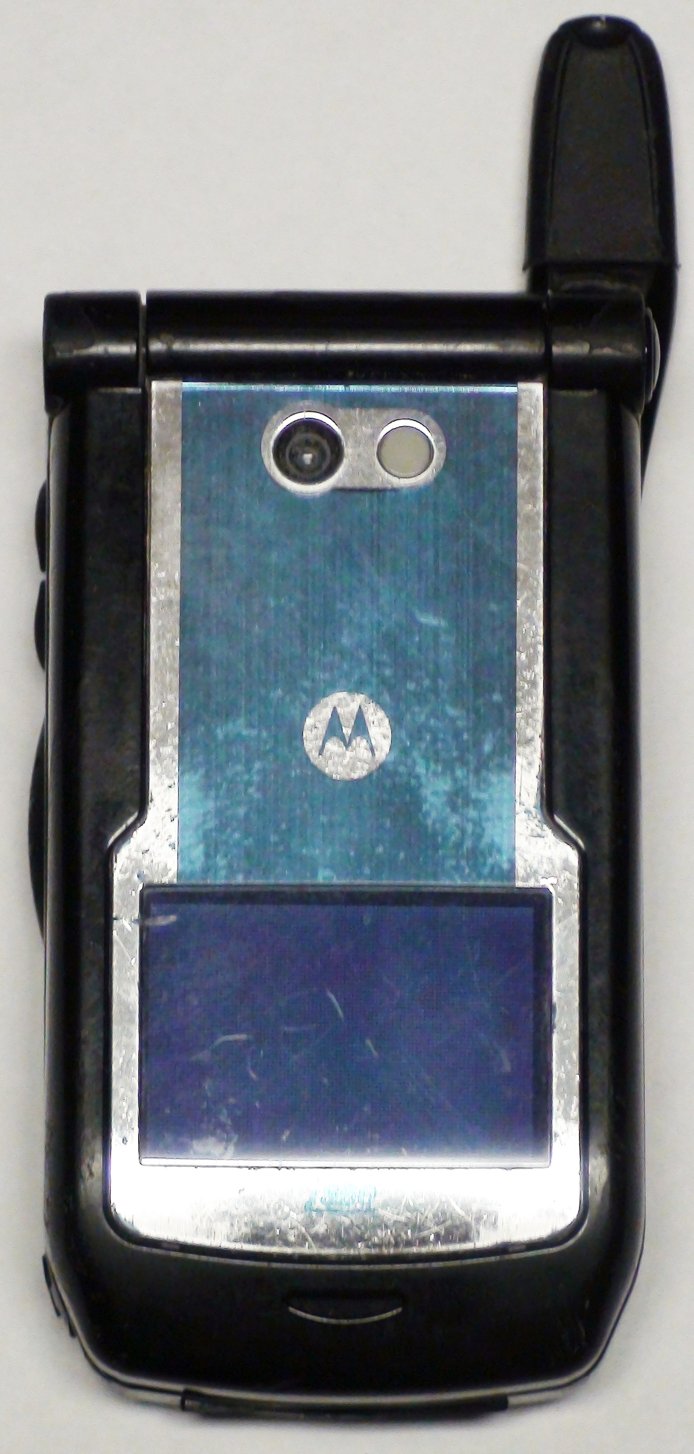 A Motorola i860 cellular telephone on October 30, 2014. Photograph taken on October 30, 2014, in Germantown, Maryland, with a Sony HDR-SR11 camcorder, by Illegitimate Barrister.